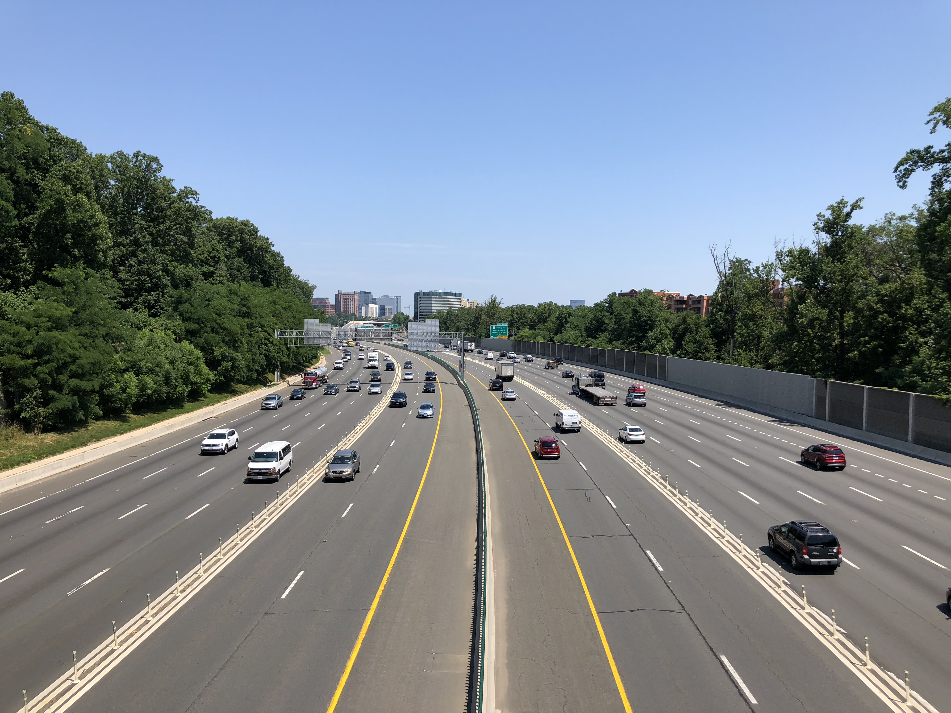 View north along Interstate 495 (Capital Beltway) from the overpass for Virginia State Route 796 (Oak Street) on the edge of Idylwood and Dunn Loring in Fairfax County, Virginia